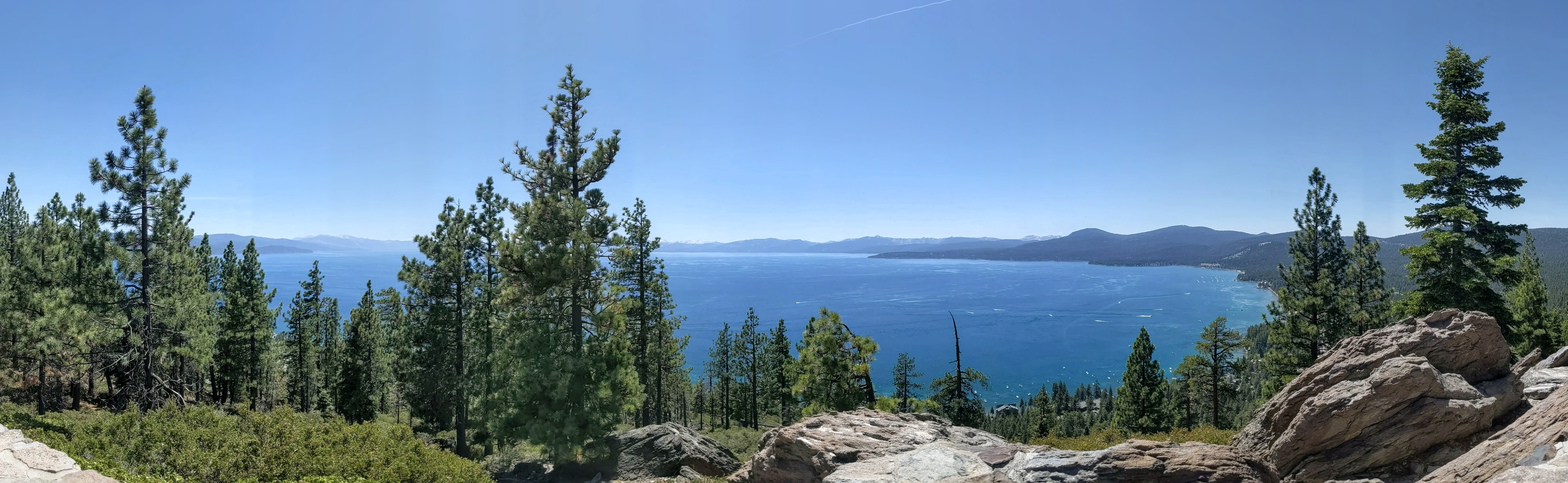 Panoramic view of Lake Tahoe from historic Stateline fire lookout, Kings Beach, California